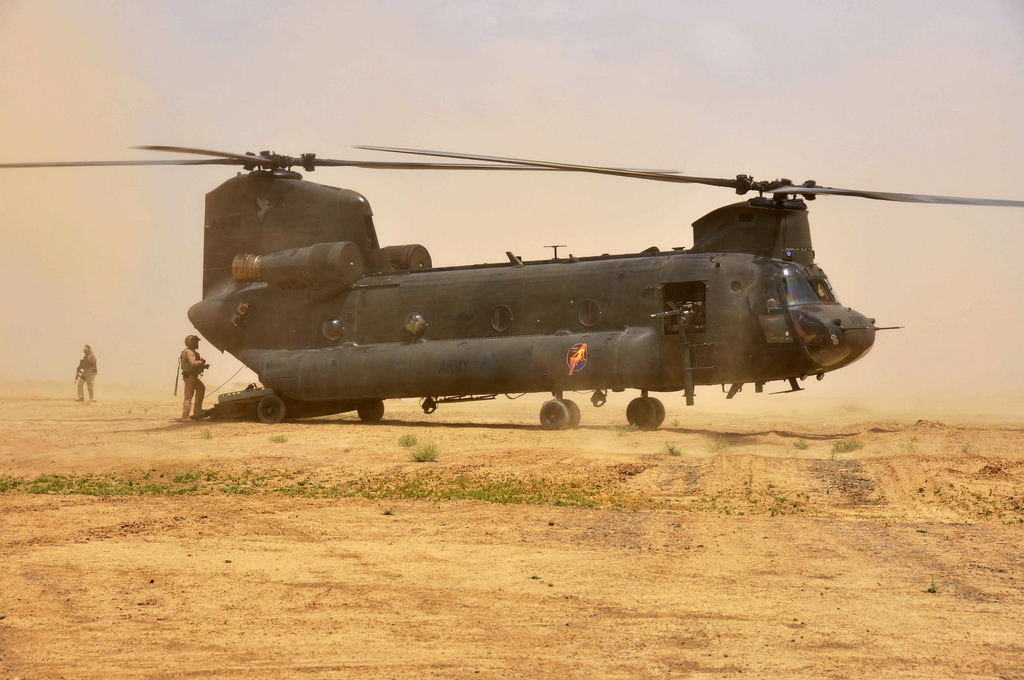 An Australian Army Chinook helicopter transports USACE, Afghan and NATO forces to the Kandahar Regional Military Training Center construction project site for a tour of the ongoing construction Apr. 17, 2012.